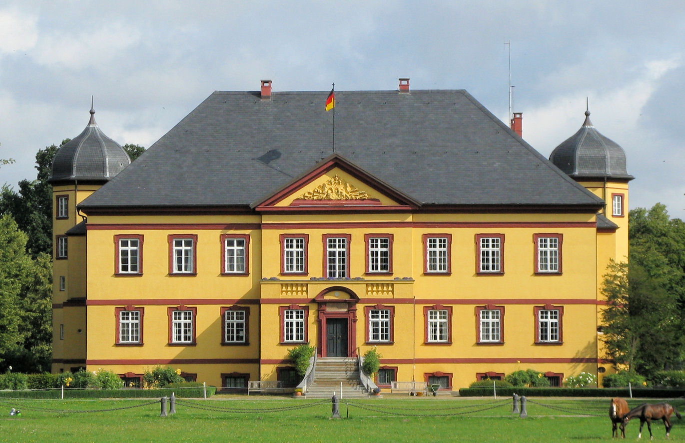 Manor house in Hohen Luckow, district Rostock, Mecklenburg-Vorpommern, Germany